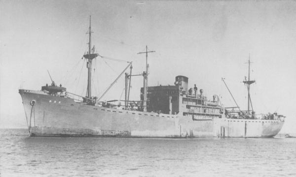 Japanese seaplane tender "Kinugasa-maru" off Chinese coast.